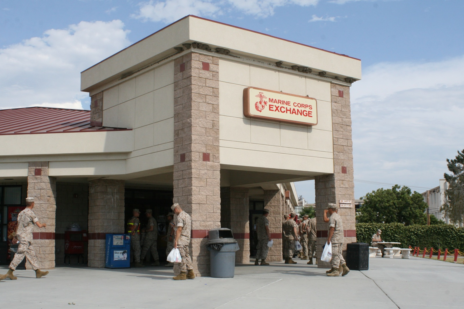 Pendleton get some time to get their hair cut, purchase needed supplies and get a bunch of unnecessary, but fun stuff too. This is the store that they purchase some of it from. The lines at the barber are sometimes over 100 marines long. They hand out tickets and call their numbers.